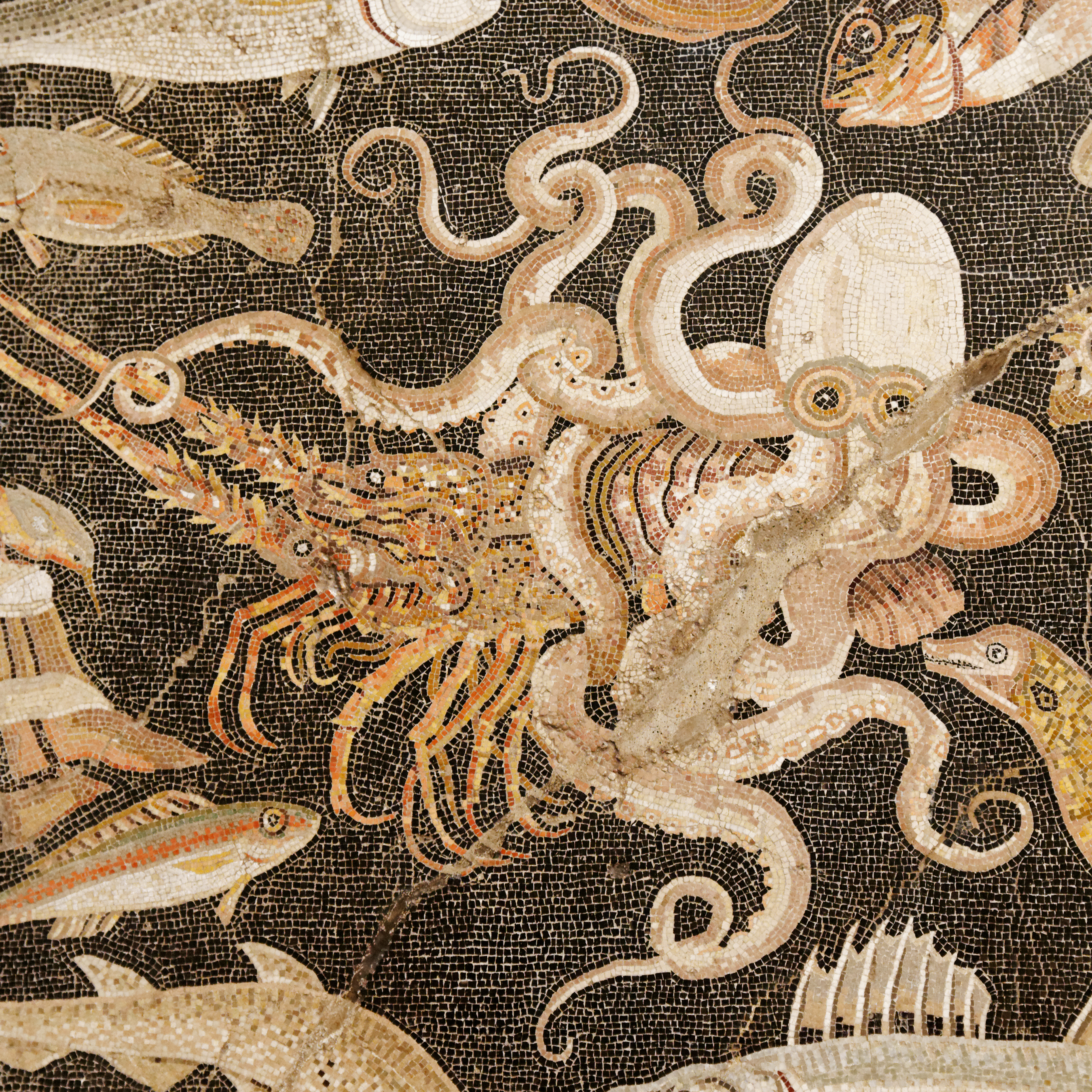 Octopus, detail from a Roman mosaic in the 'House of the Dancing Faun', Pompeii.